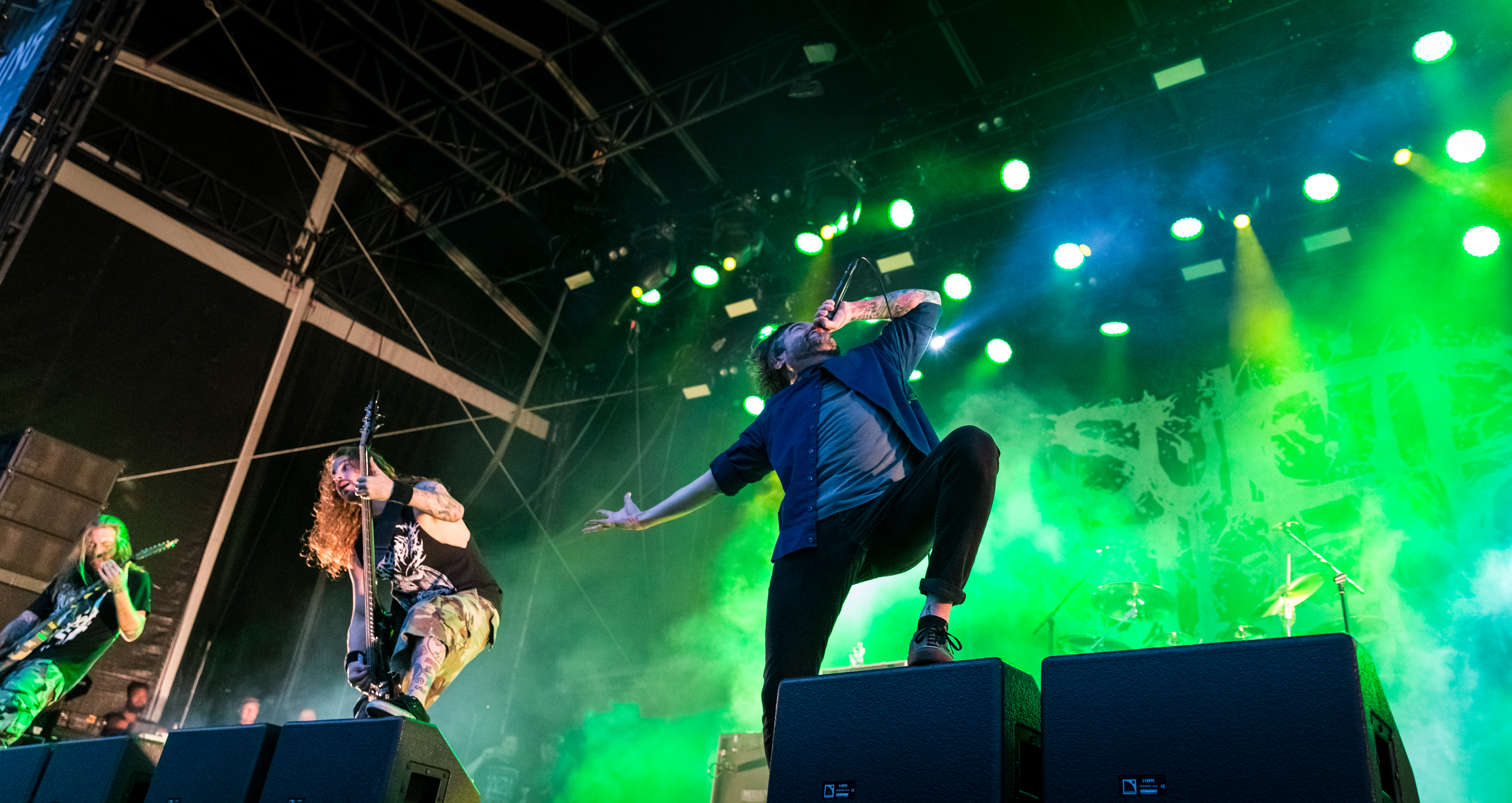 Suicide Silence - Rock am Ring 2017